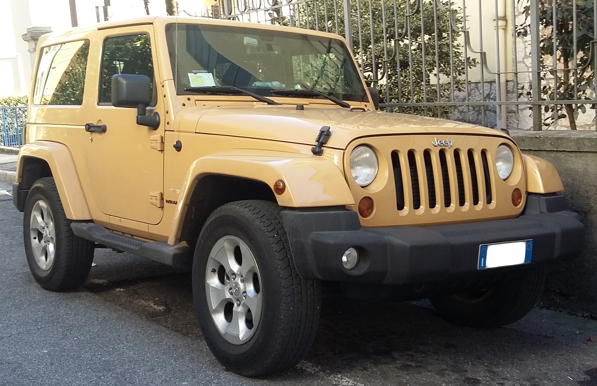 2006-present Jeep Wrangler JK, front